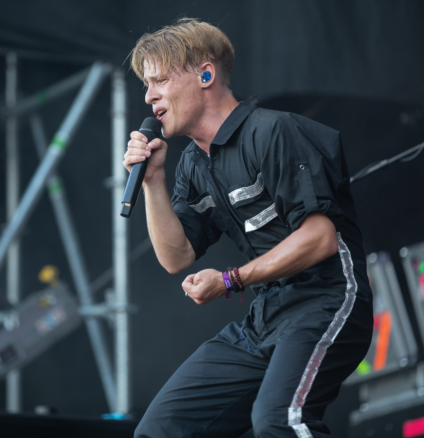 Sondre Justad at Stavernfestivalen. The concert took place on 13. July 2019 in Stavern. Lineup:Sondre Justad (vocal)